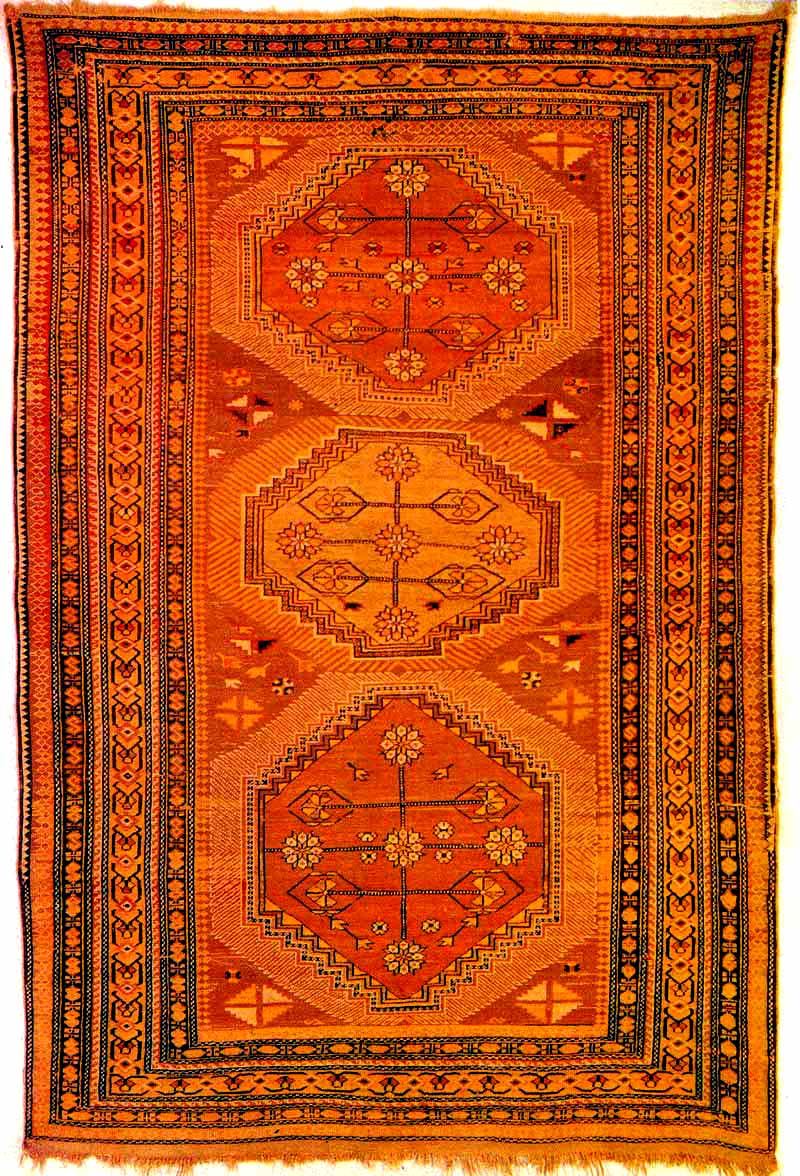 "Surkhani" Carpet. Baky group.